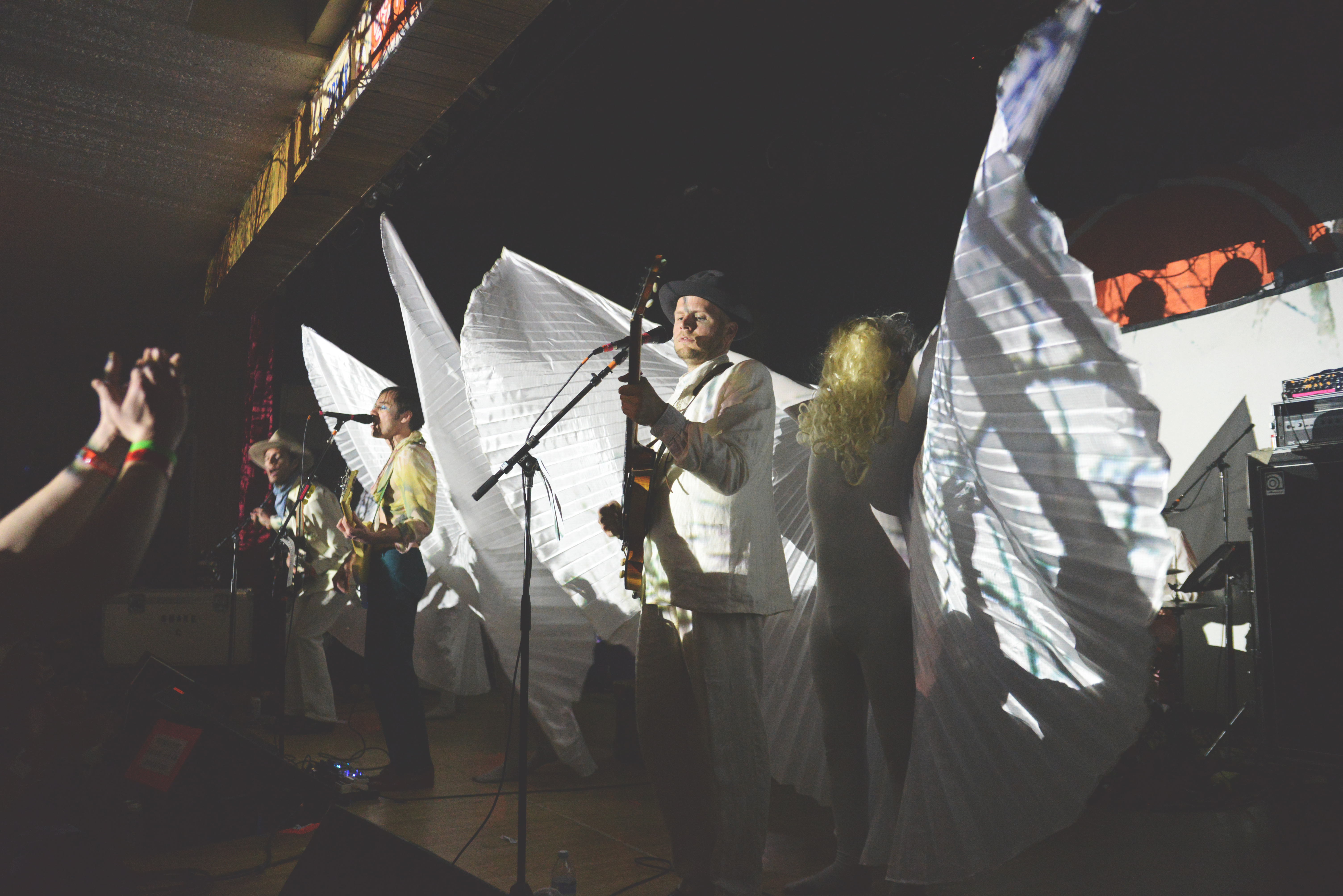 Of Montreal-El Korah Shrine-Treefort2015-Credit-Kasey Elliott